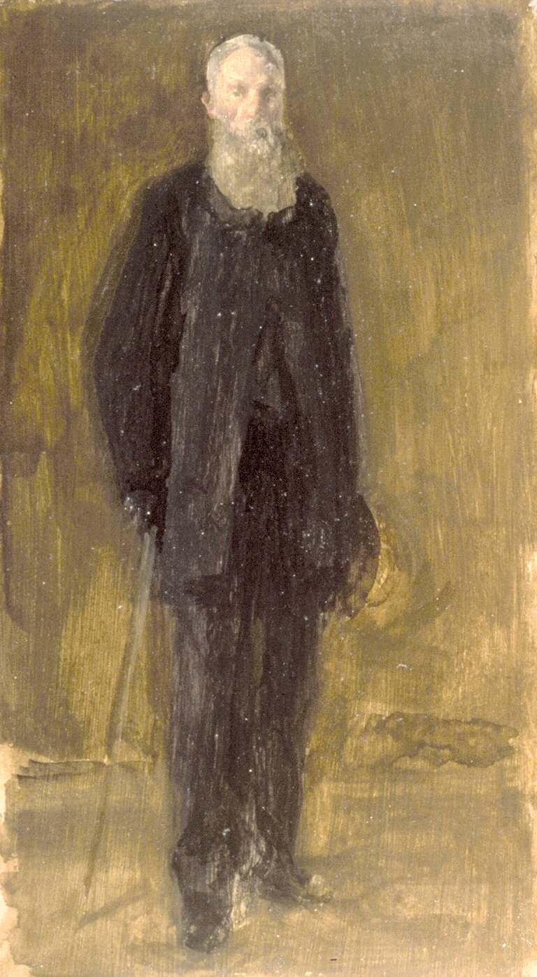 Though he frequently posed as a southern gentleman from Baltimore, Whistler was born in Lowell, Massachusetts, and, together with Lucas, attended the West Point Military Academy. He later trained in Paris in the studio of Charles Gleyre, where he befriended the realists Gustave Courbet and Edouard Manet, as well as the future impressionists Claude Monet, Edgar Degas, and Henri Fantin-Latour. In 1859, Whistler moved to London, abandoned Realism, and developed his own tonalist style of painting that used muted colors and reflected the influences of Japanese art and of the art of Diego Velázquez (1599-1660).